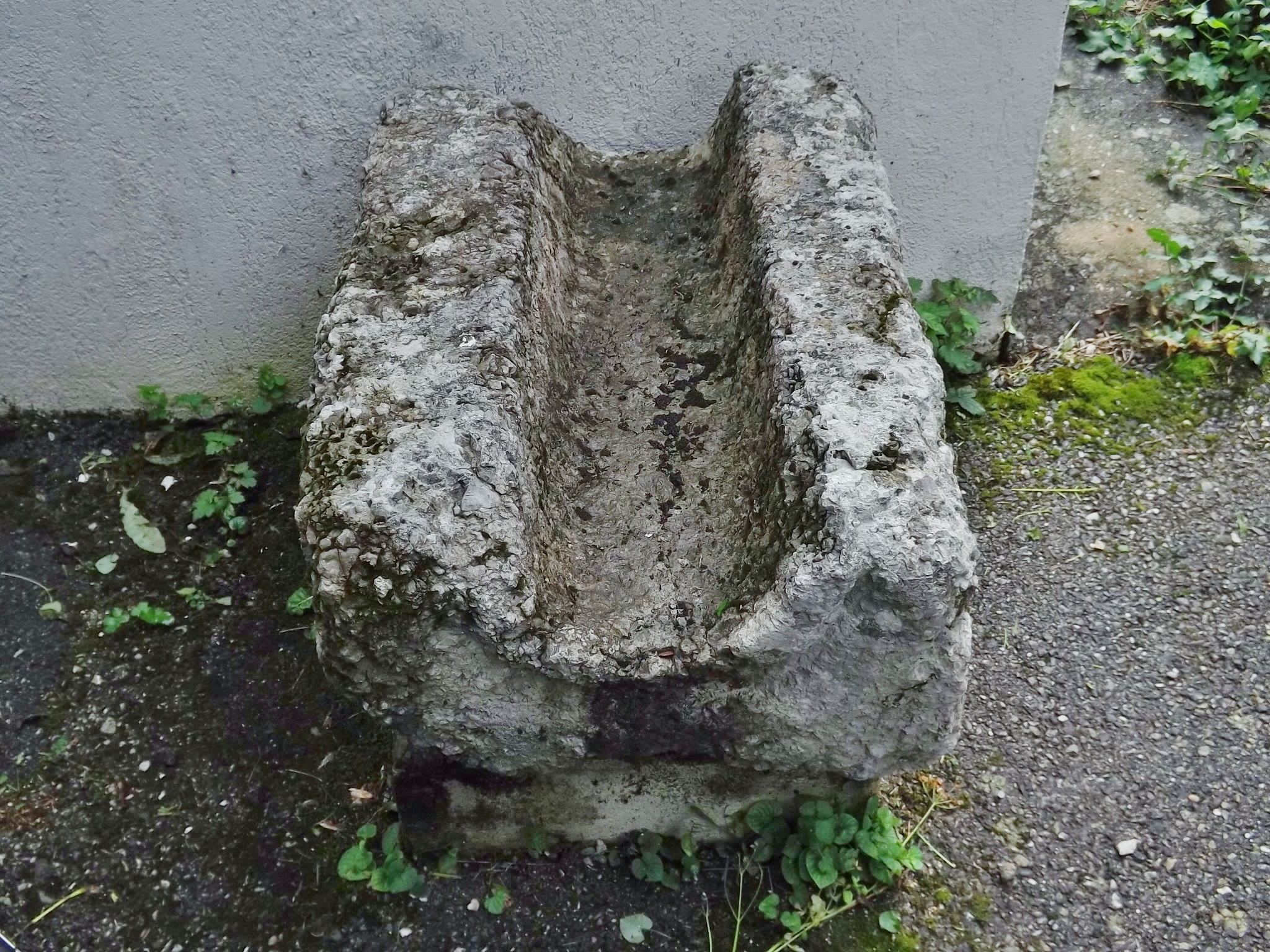 Sight of a part of the former Roman aqueduct which used to spring water from the Saint-Saturnin source to Lémenc in Chambéry, Savoie, France.